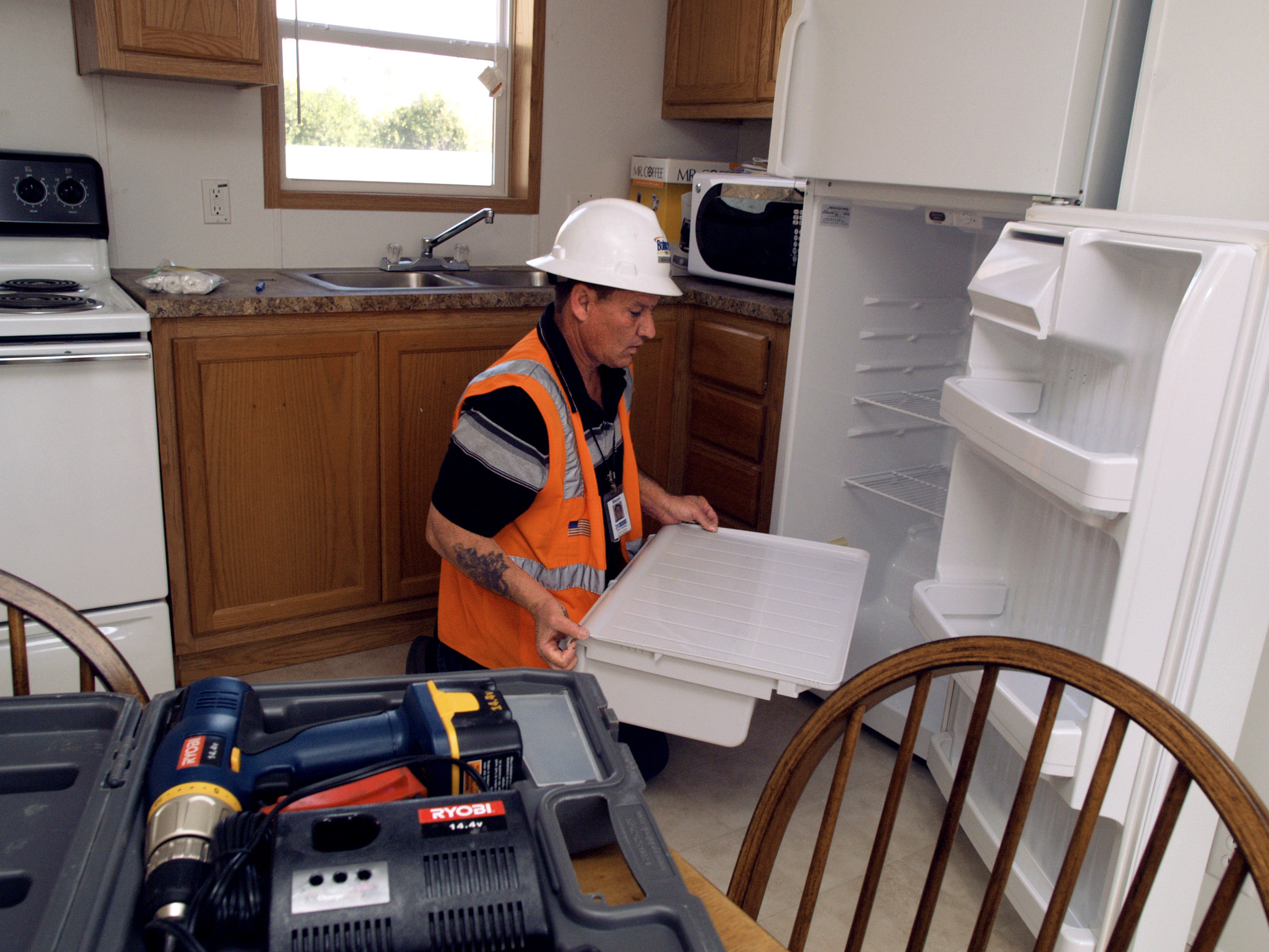 Delzura, CA, December 7, 2007 -- Don Keller of Babcock Services, Inc. inspects a refrigerator as part of his job to ready a mobile home for occupancy. Once they arrive at a site where an applicant will occupy it, carpenters; FEMA officials and local and/or county inspectors; electricians; pier and skirting installers; and plumbers work together to prepare mobile homes for use. A family who lost their home during the October wildfires will live here temporarily while rebuilding. Amanda Bicknell/FEMA